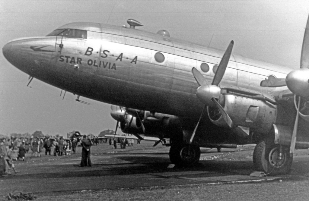 Avro 688 Tudor 4B G-AHNI "Star Olivia" of British South American Airways at Woodford Aerodrome Cheshire in 1949